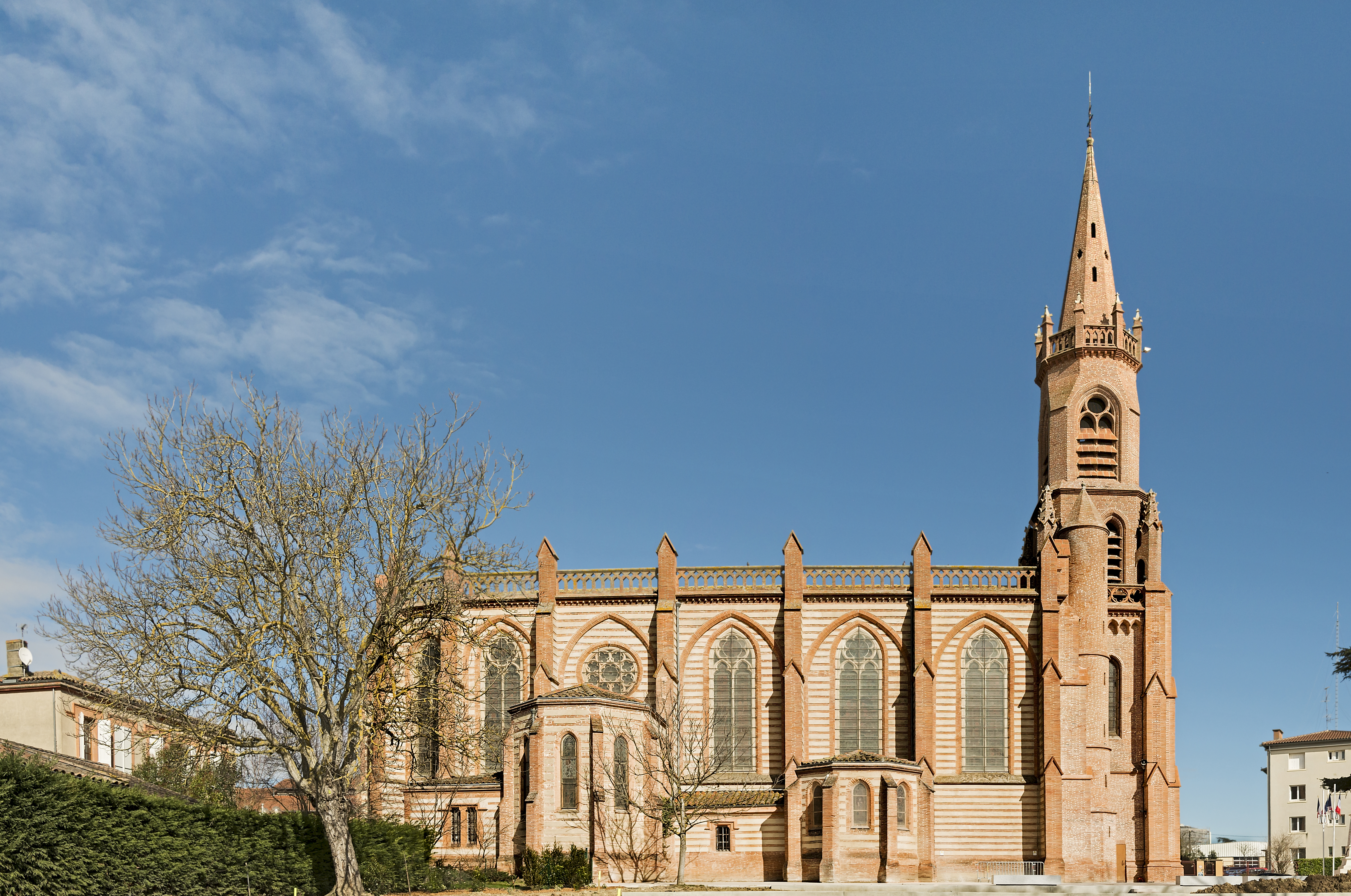 L’Union, The church St John the Baptist